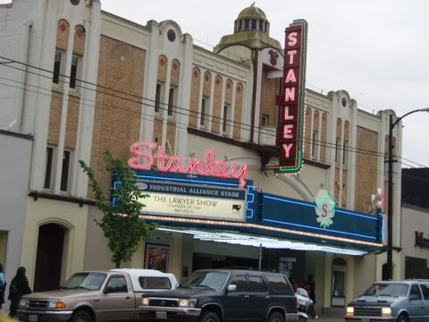 Stanley Theatre, Vancouver, BC, Canada